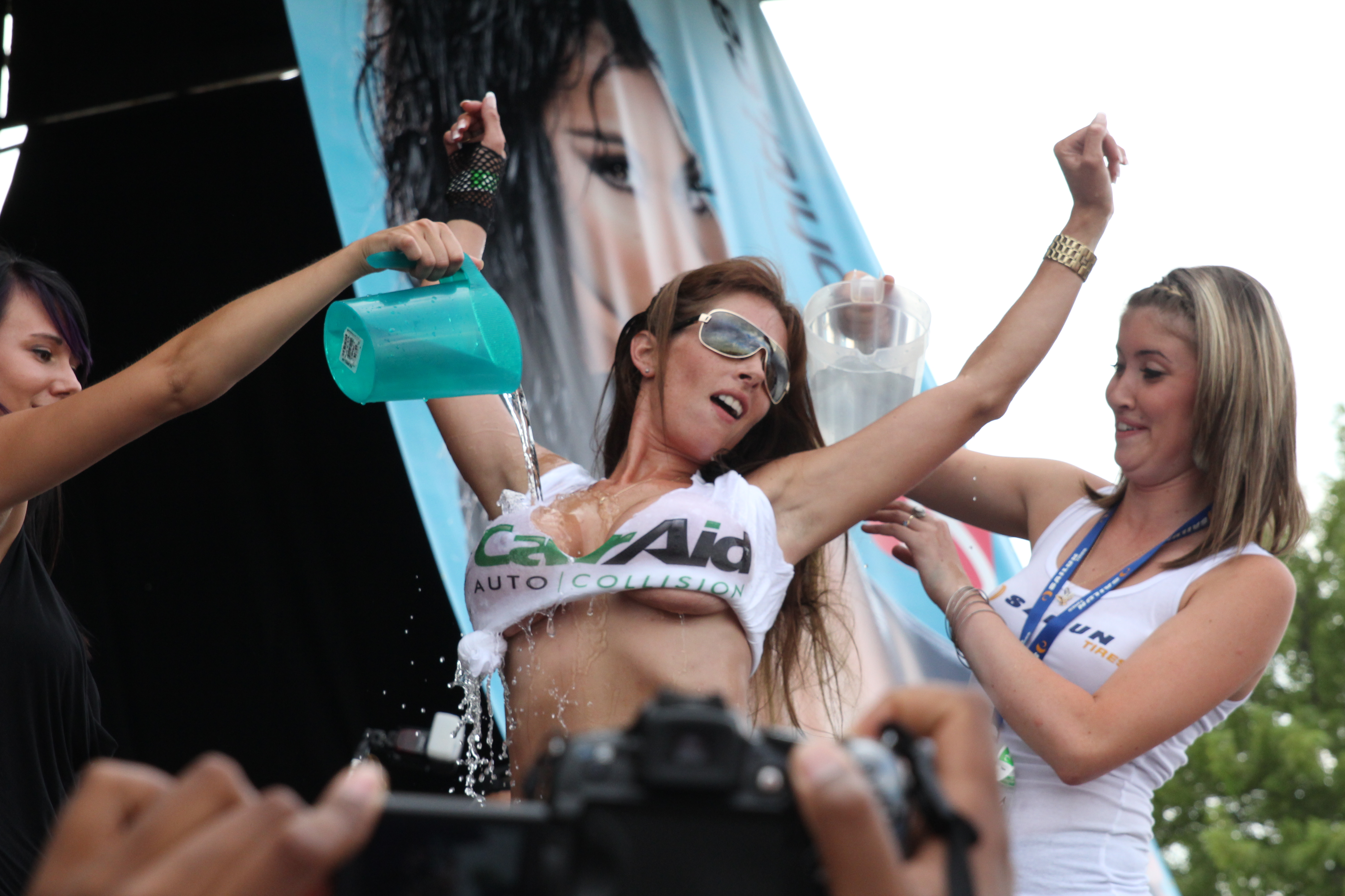 IMG_5707 IMPORTEXPO Track Race Show- July 23 2011.